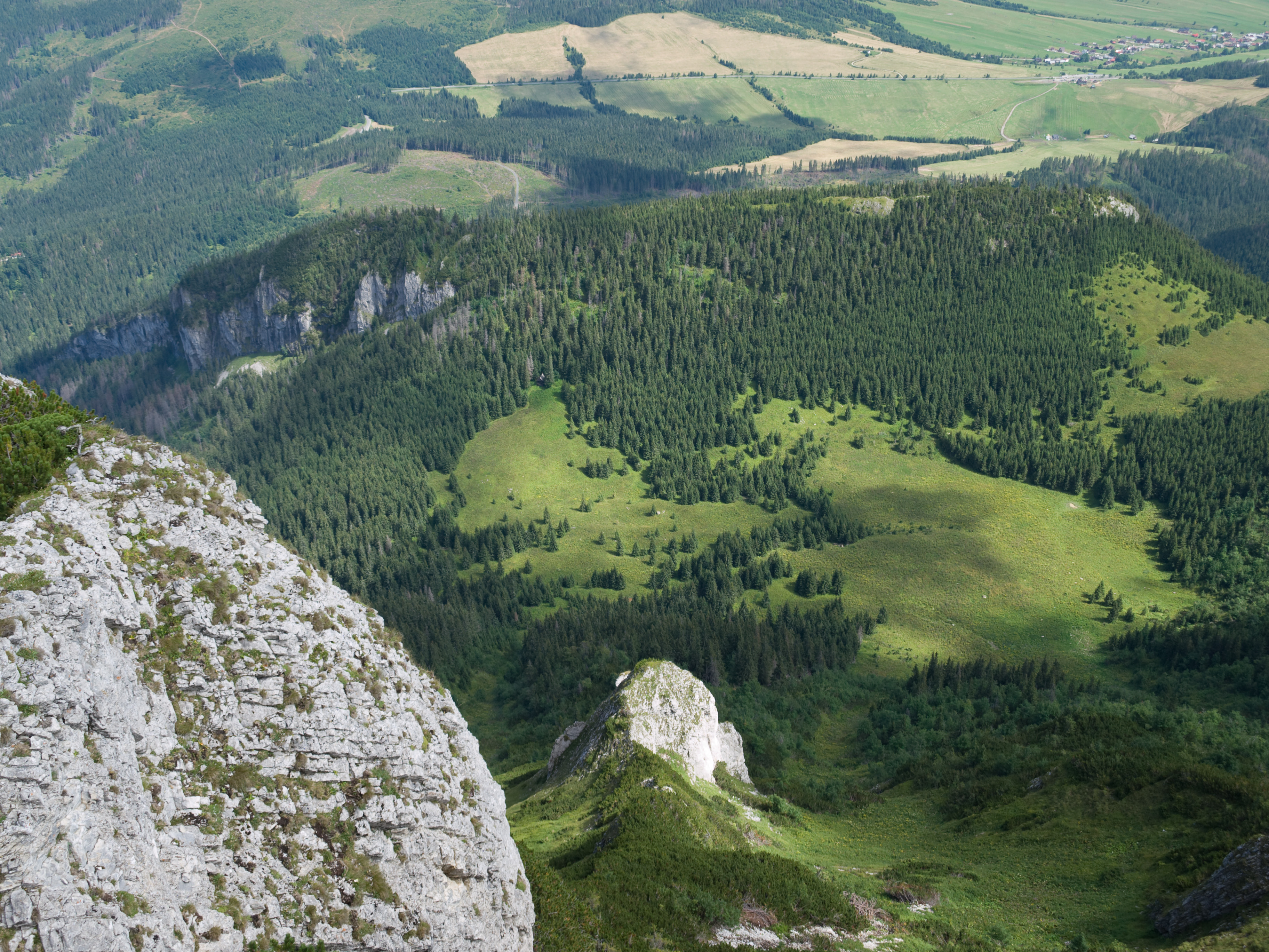 Javorinka and Stará poľana.